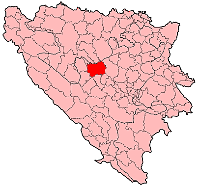 Municipality of Travnik in Bosnia and Herzegovina